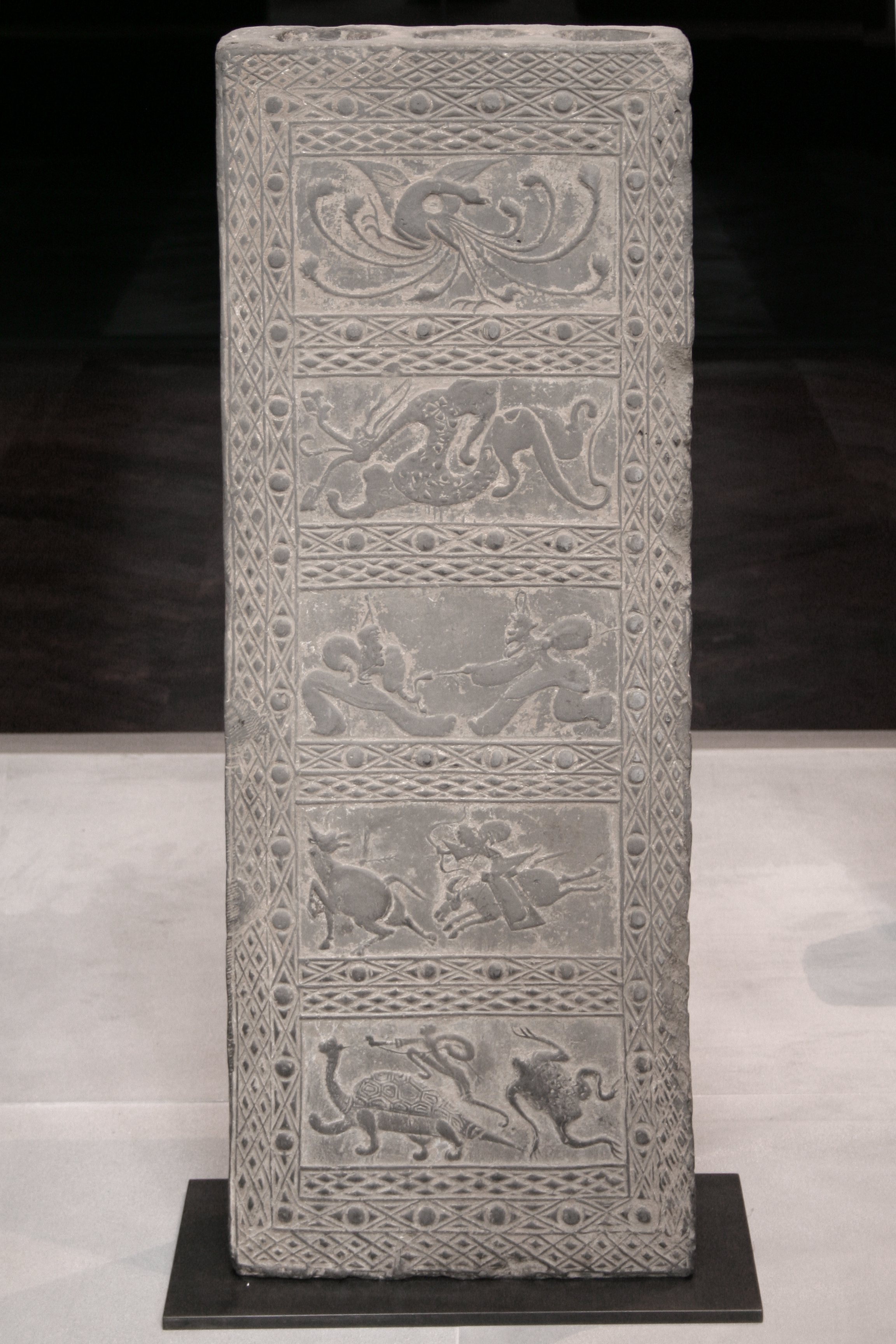 A pottery tile of the Han Dynasty, depicting hunting and battle scenes containing emblematic figures of the "five cardinal directions" (more precisely, the "five squares", 五方, i.e. the four cardinal directions - N S E W -, plus the center). The five sacred mountains of China were also associated with these "5 cardinal directions". Cernuschi Museum, Paris, France. A description of this item can be found e.g. in Chinese Mythology by Anthony Christie.